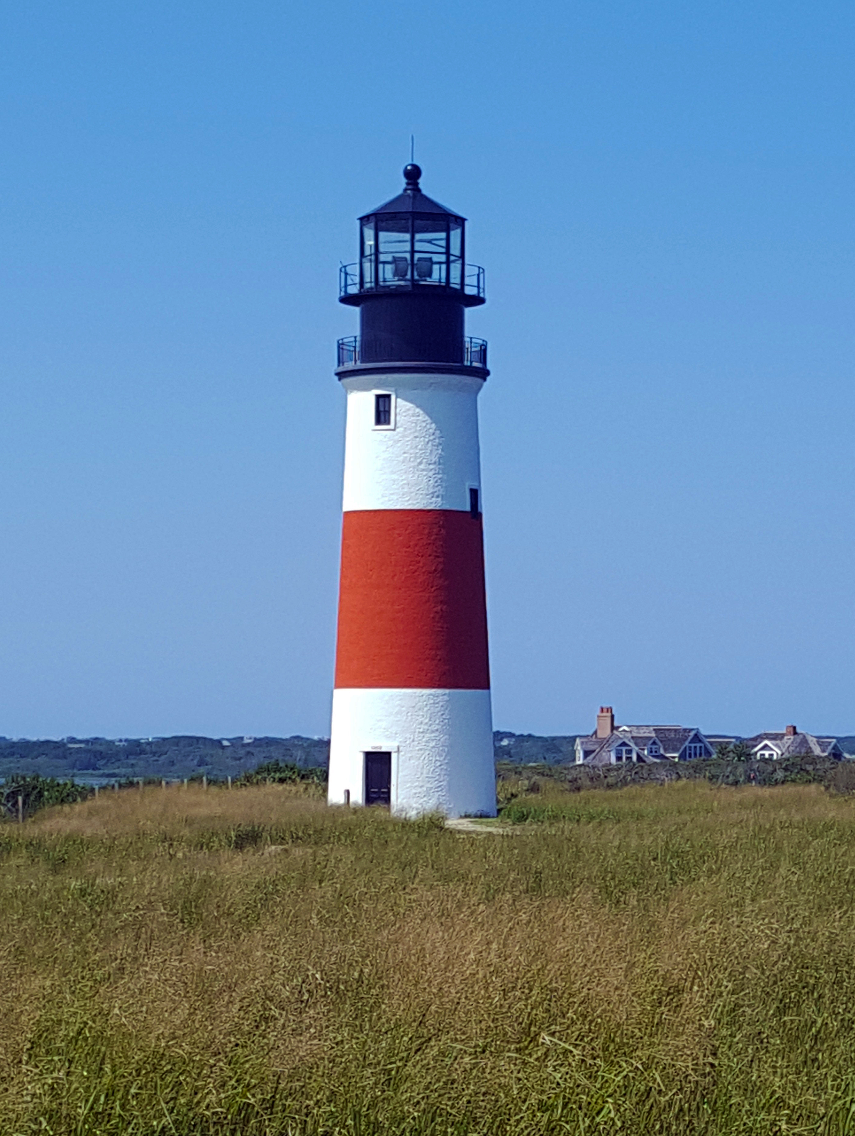 Sankaty Head Lighthouse by Don Ramey Logan